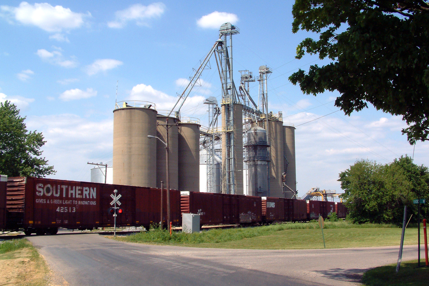 A Norfolk Southern freight train passes the grain elevators in State Line City, Indiana. This photo, taken near the corner of State Line Road and Woodard Street, looks northeast.